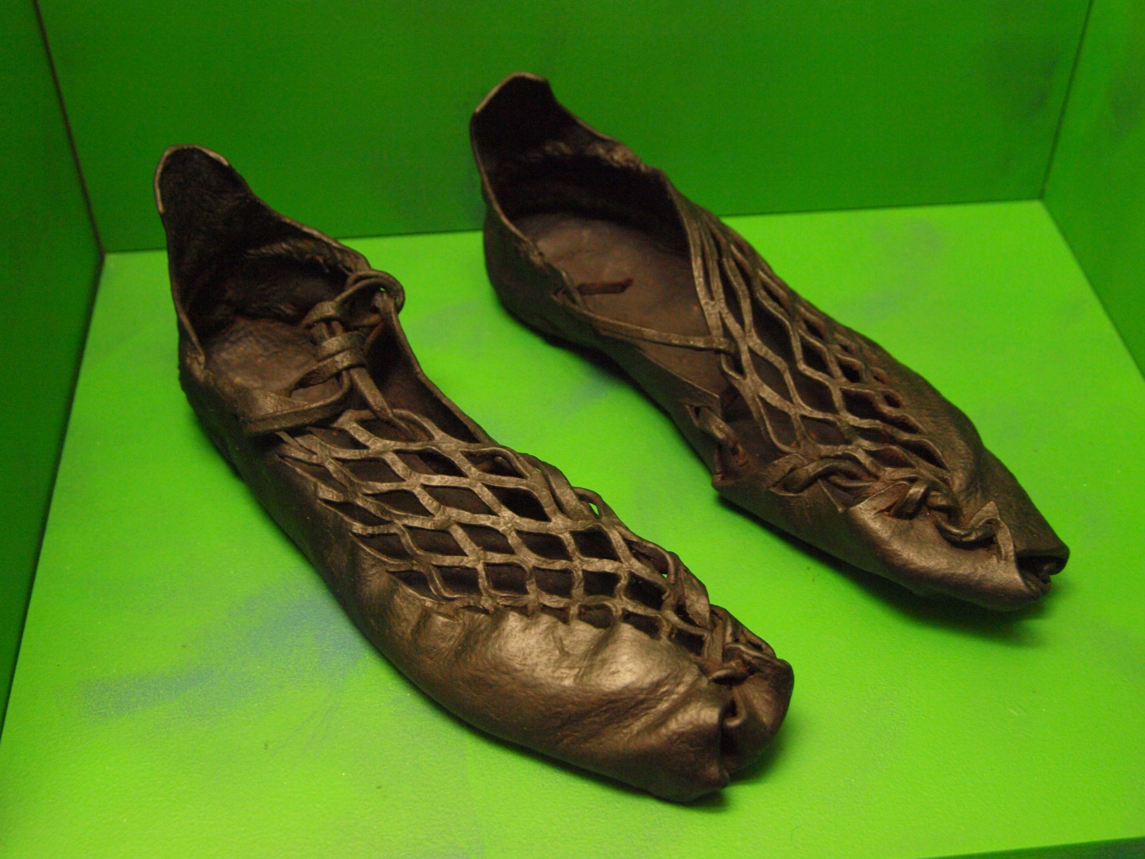 Shoes of bog body Damendorf Man, dated around 2nd to 4th century, found near Damendorf, Rendsburg Eckerförde, Germany. On display at Archäologisches Landesmuseum Schloss Gottorf in Schleswig.